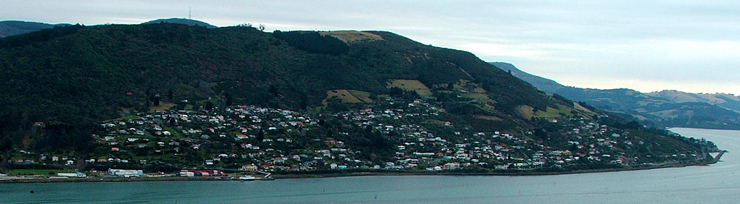 Ravensbourne, Dunedin, New Zealand. Photographed from Rotary Park, Shiel Hill, 14 June 2009